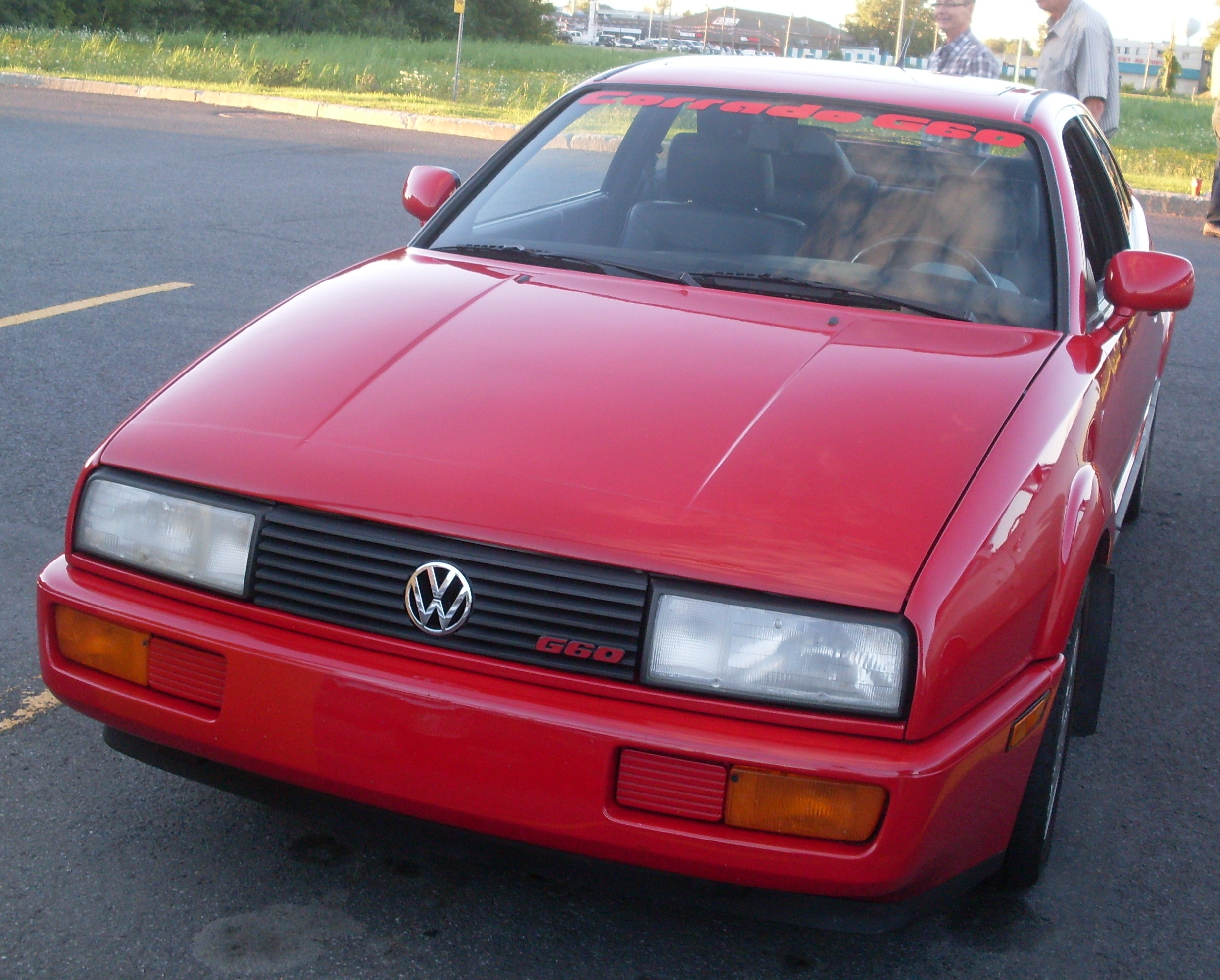 Volkswagen Corrado photographed in St. Constant, Quebec, Canada at Auto classique St-Constant 2013.